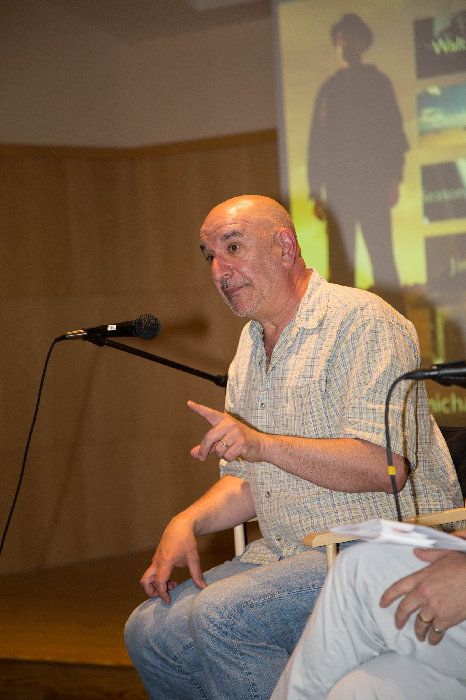 Slovis at the Montclair Film Festival in 2013